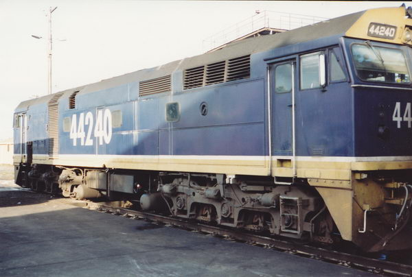 44240 in 'FreightCorp Blue' livery at broadmeadow loco circa 1990